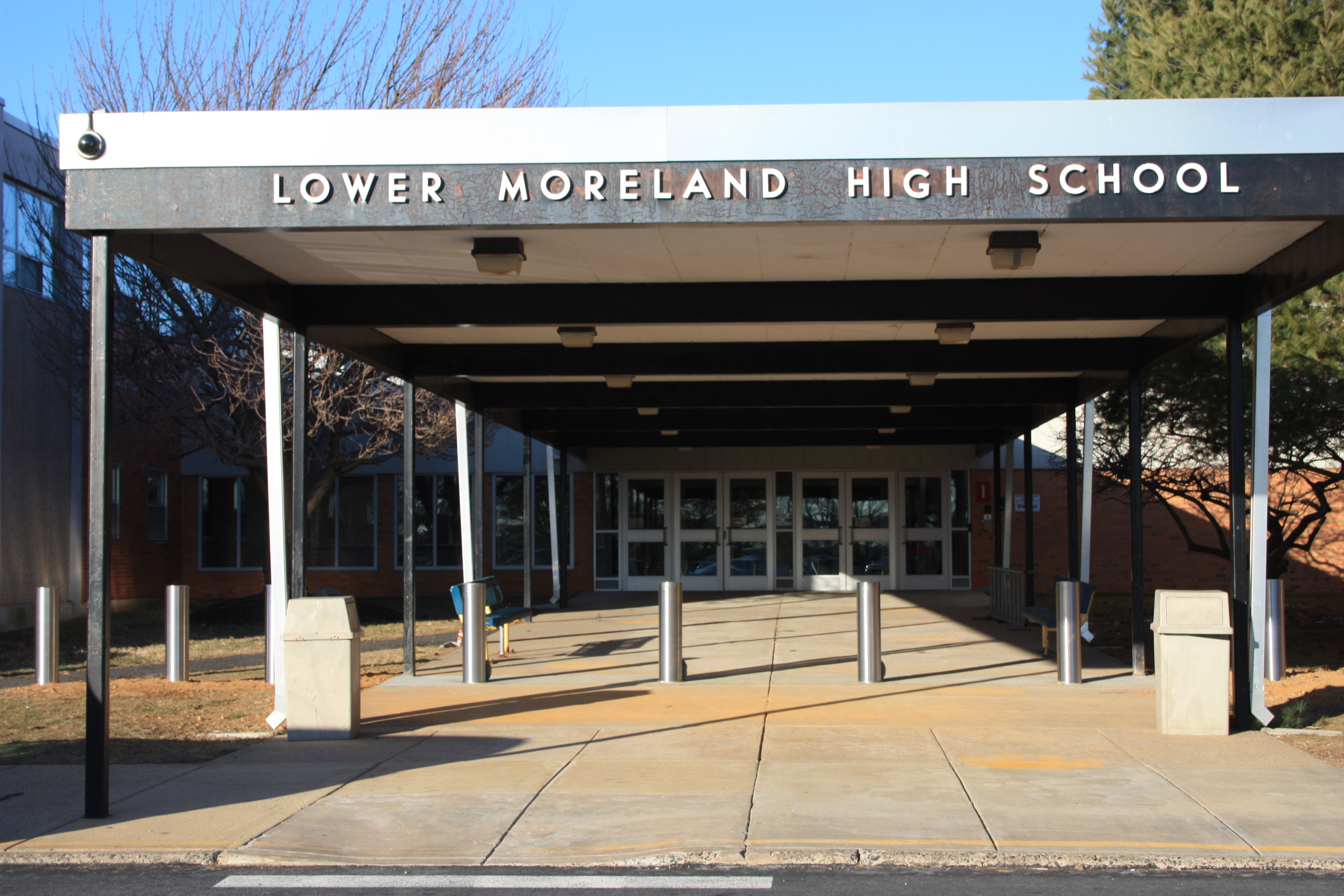 Lower Moreland High School, Huntingdon Valley, Pennsylvania.